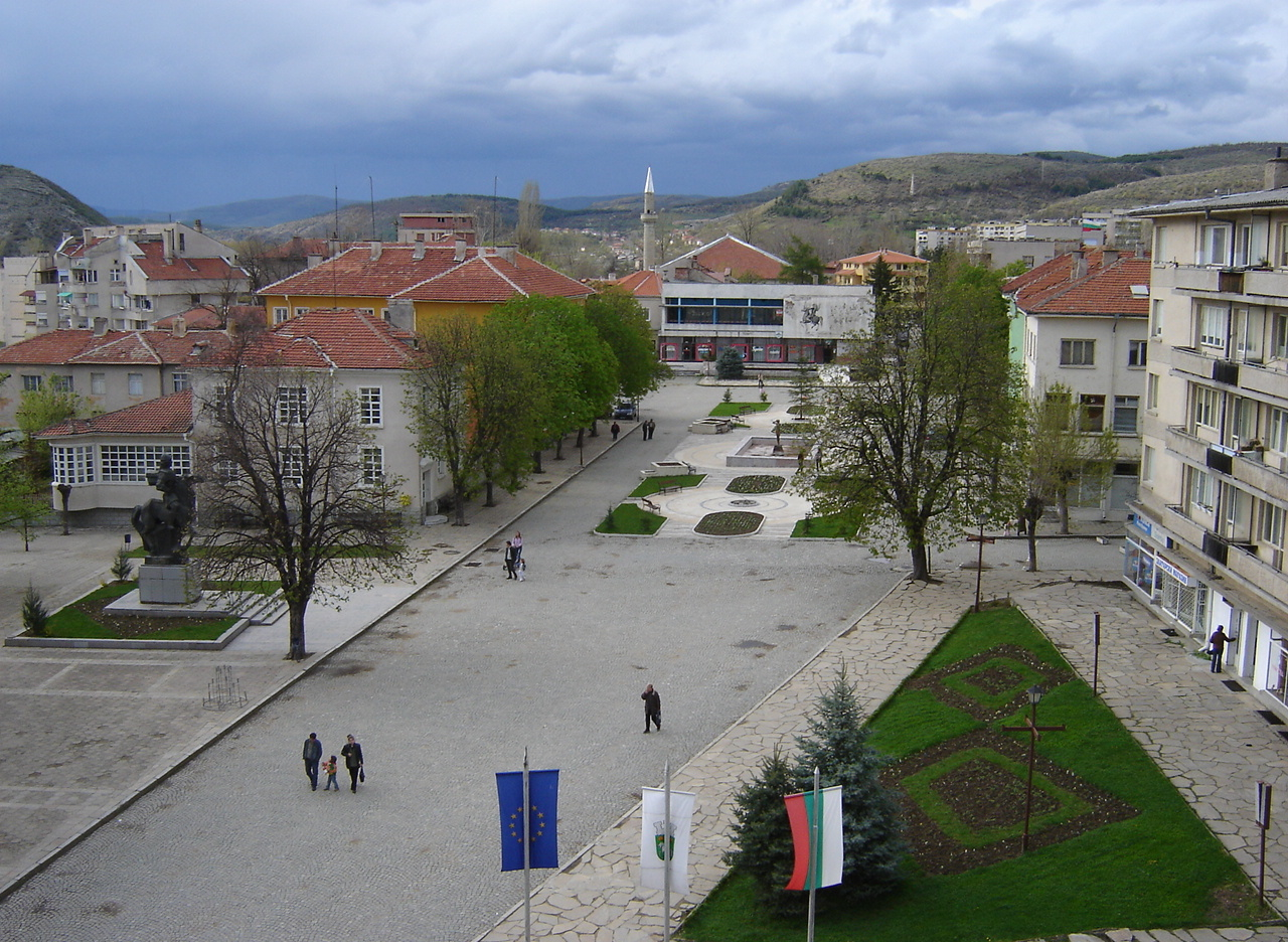 The centre of Krumovgrad, Bulgaria